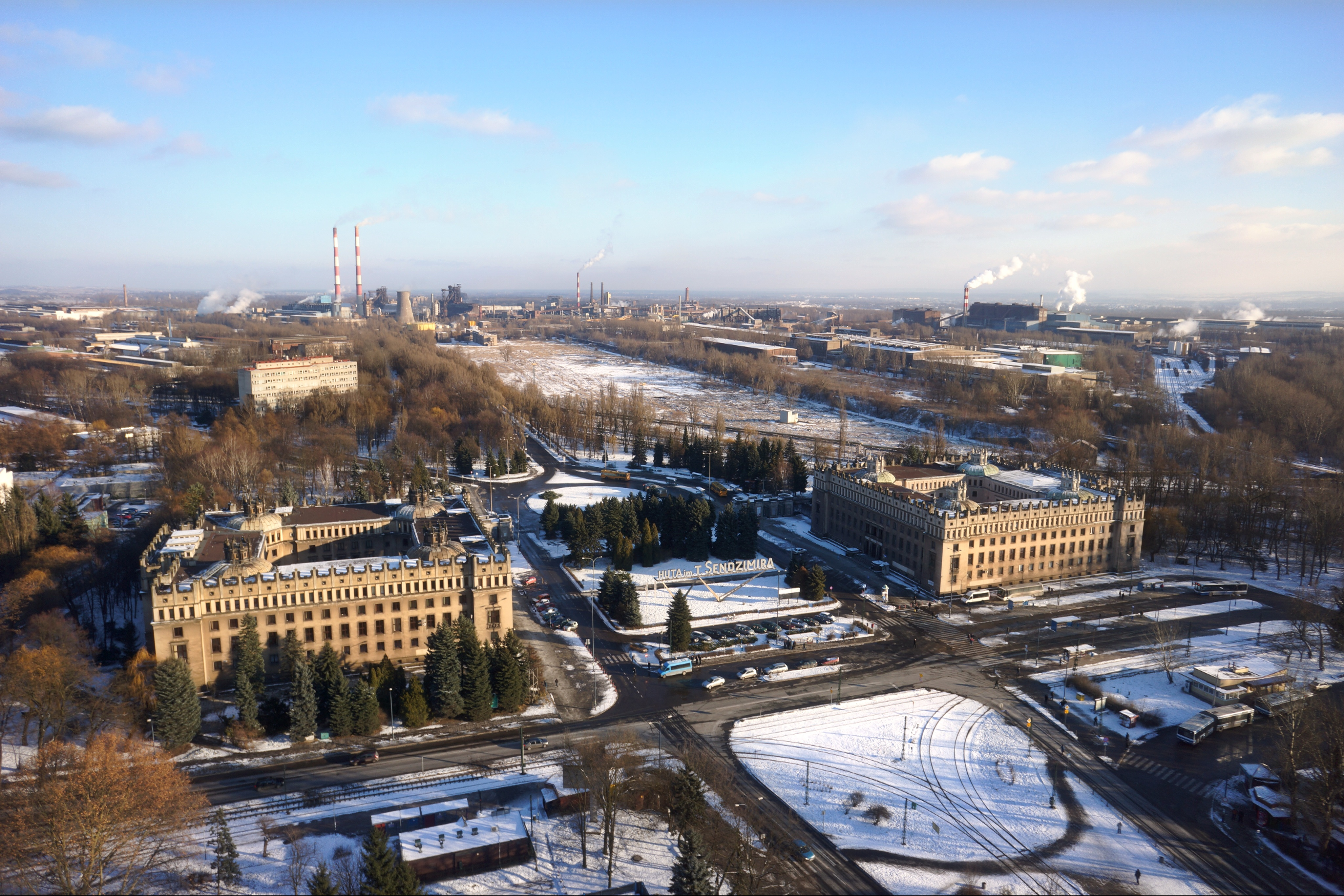 ArcelorMittal Poland steel mill, 1 Ujastek street, Nowa Huta, Kraków, Poland